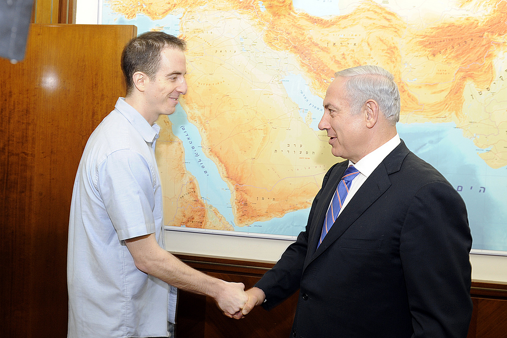 Ilan Garpel with Benyamin Netanyahu after the release.